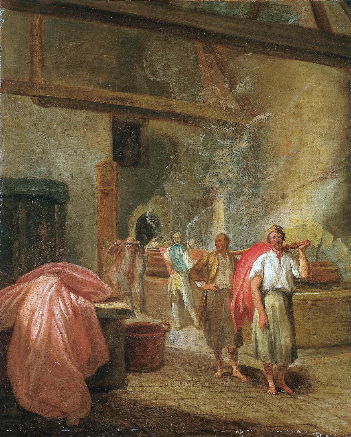 View of a dye workshop at the Gobelins